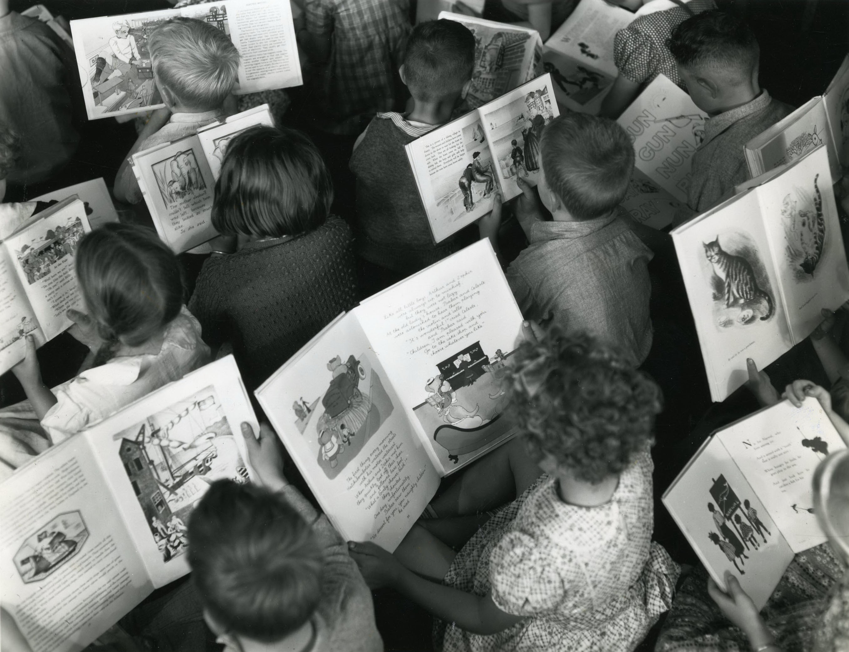 World Book Day is recognised by over 100 countries around the world. Celebrated on the 5th March, its purpose is to encourage reading and a love of books in children. The above image is of a class of children reading books circa 1960, and is from a collection of Health Department photos. Archives New Zealand Reference: ADBZ 24731 W2386 item 8 For updates on our On This Day series and news from Archives New Zealand, follow us on Twitter